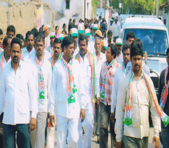 ksy 23